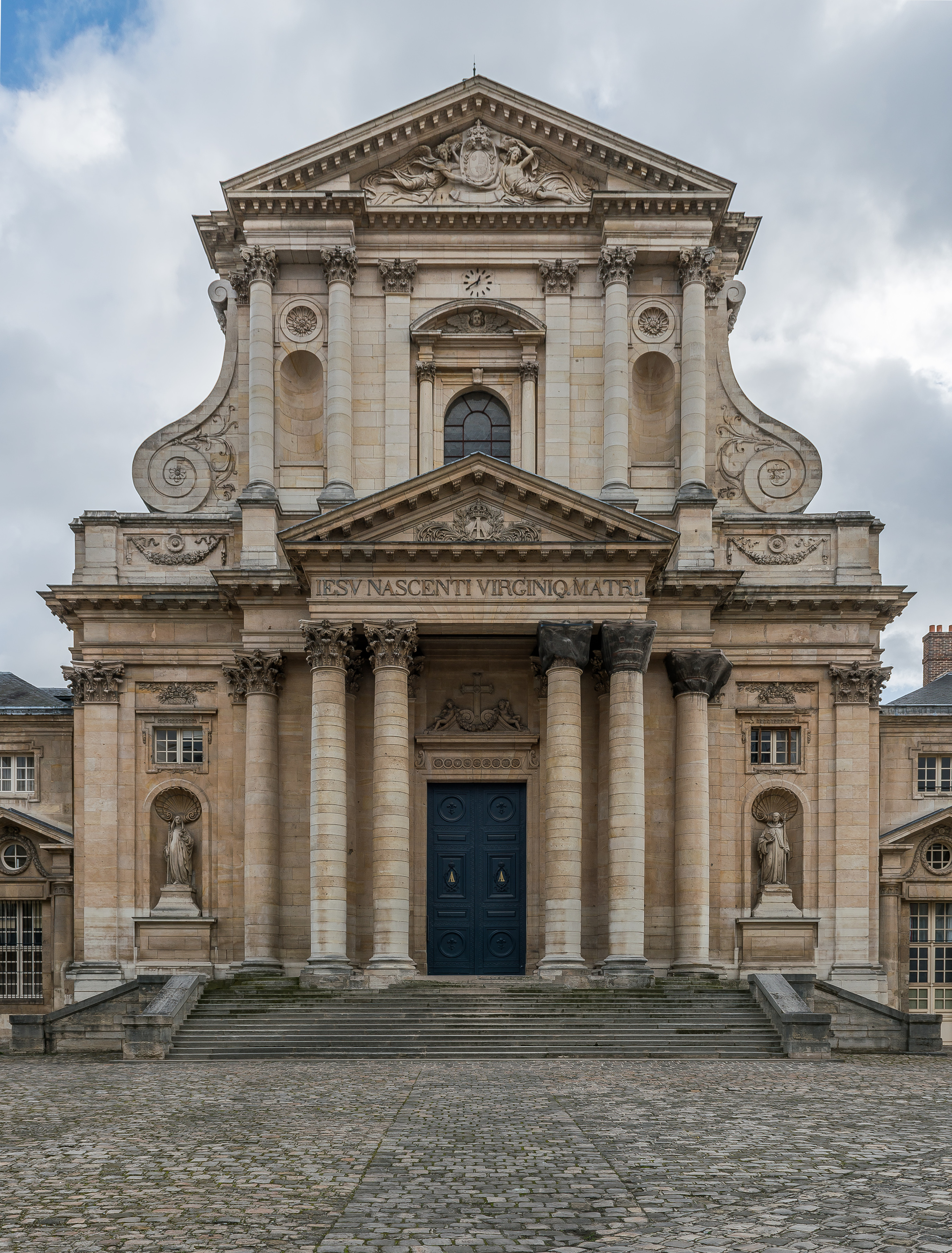 The Val-de-Grace church in the 5th Arrondissement of Paris